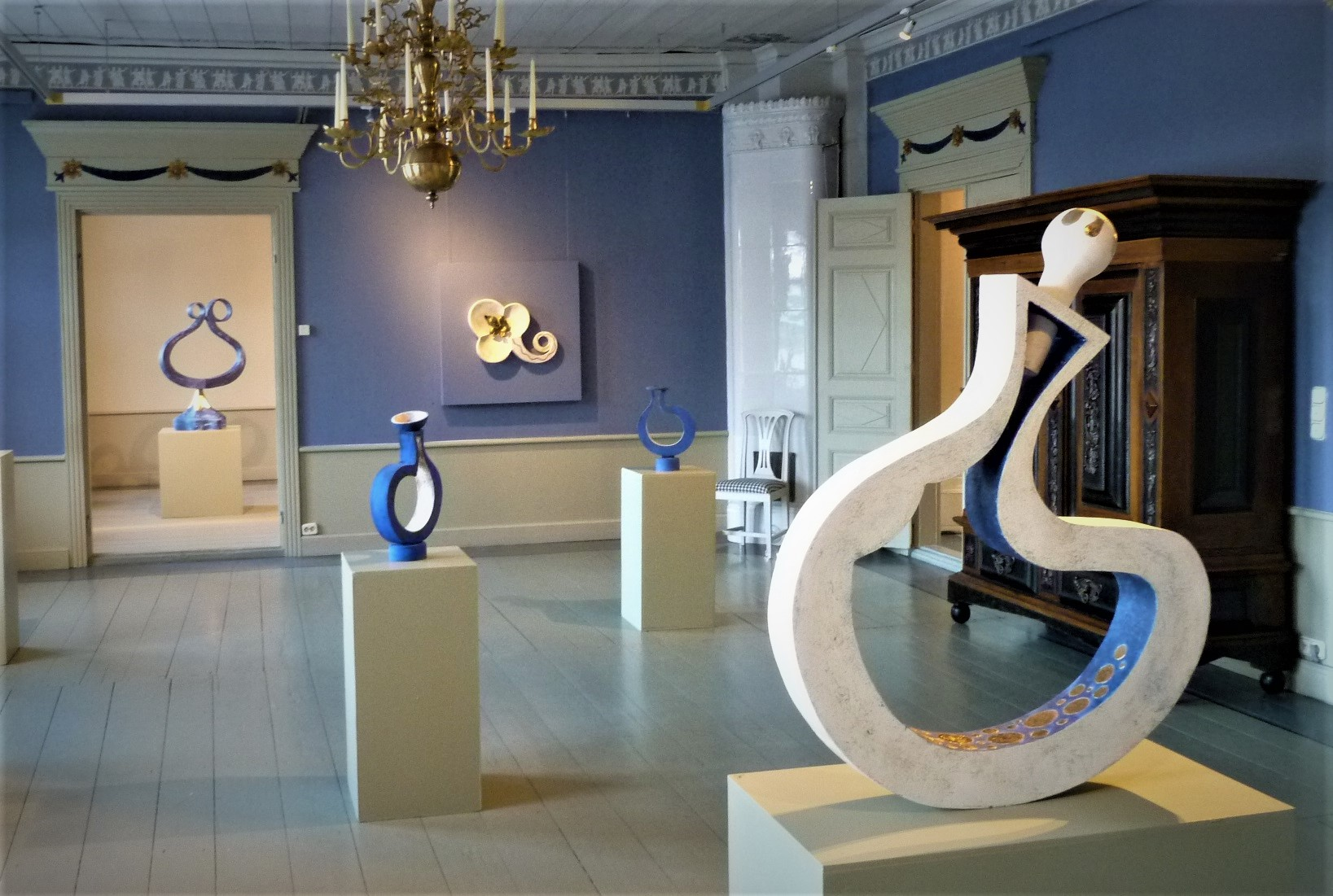 Johanna Rytkölä's ceramic sculptures exhibited in 2016 in the Heinola Art Museum, Finland.